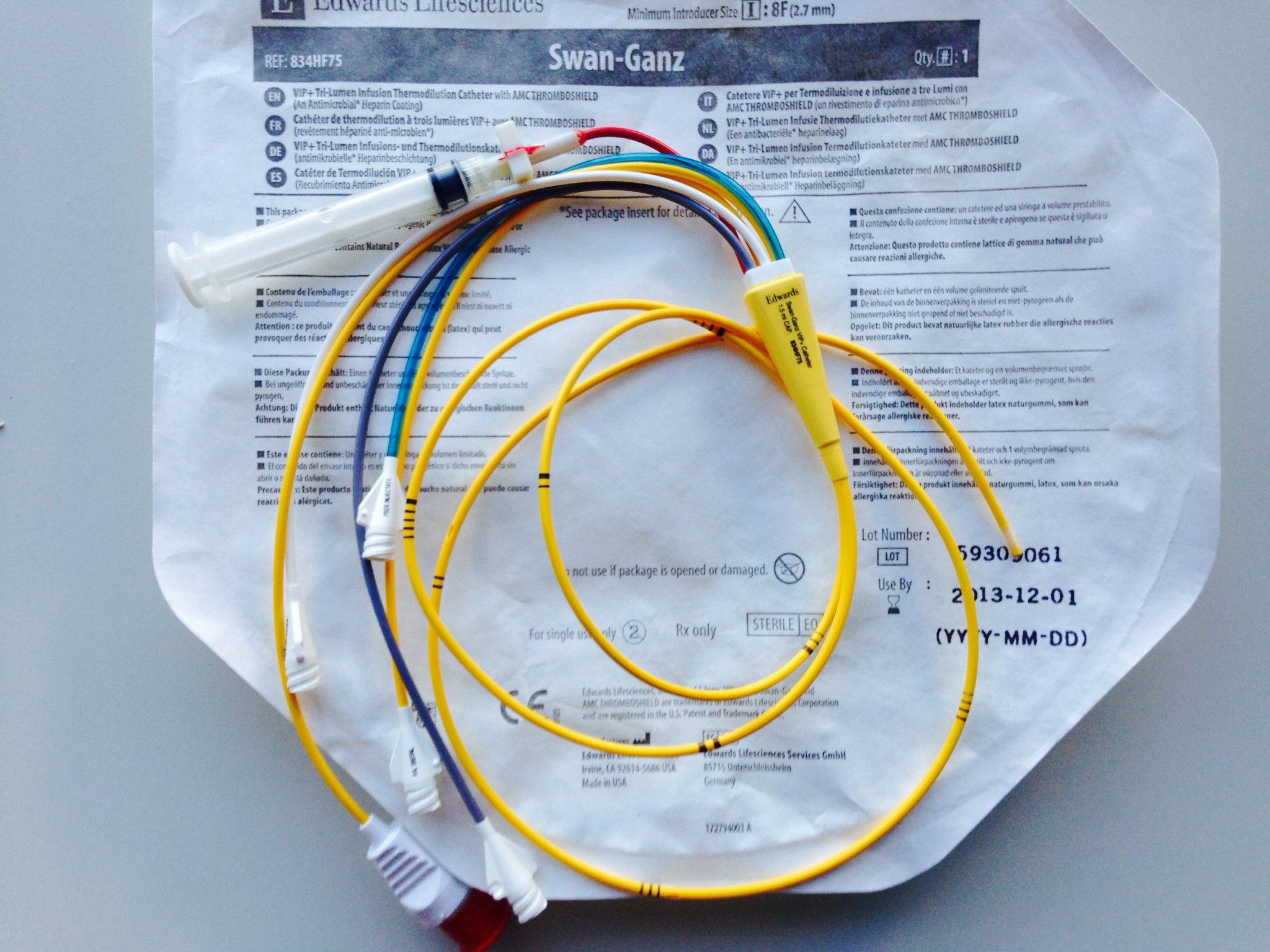 PA Catheter, Swann-Ganz, Yellow Snake